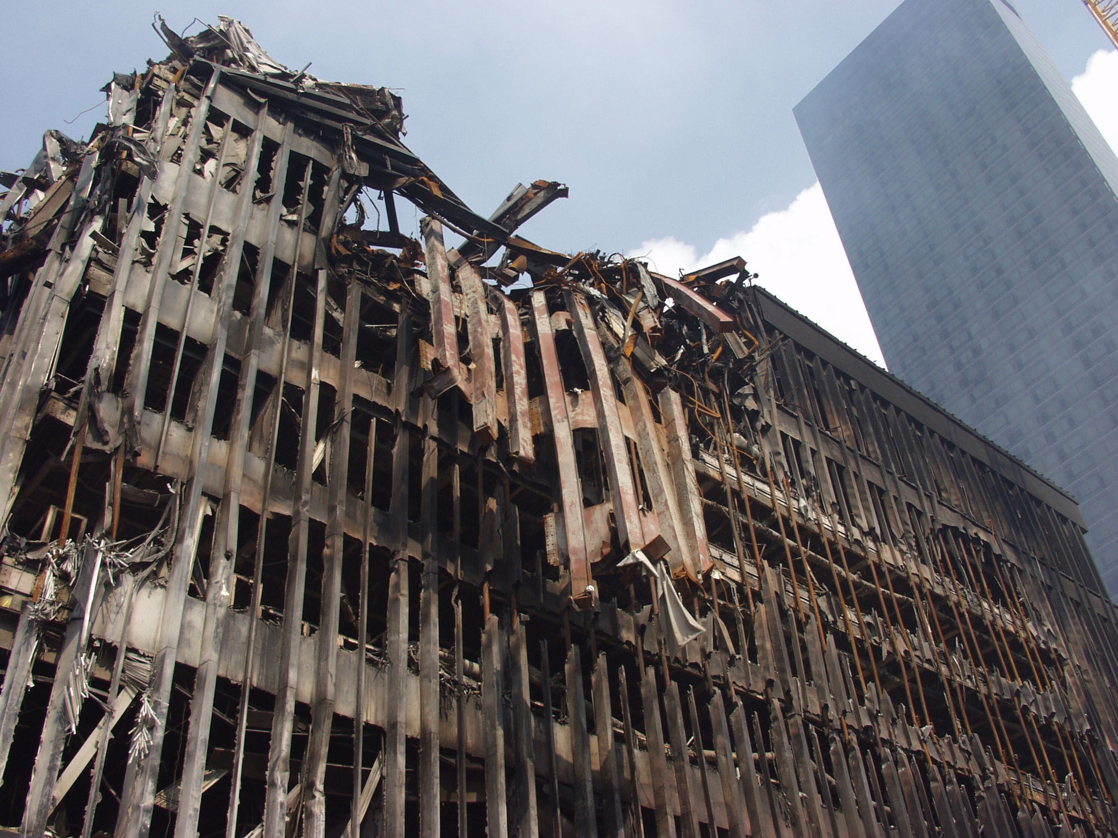 5 World Trade Center (left) and the Millenium Hilton Hotel (right) after the 11 September attacks. Original description: "New York, NY, September 21, 2001 -- The World Trade Center was completely destroyed by the terrorist attacks on September 11. The clean up operation is expected to take months. Photo by Michael Rieger/ FEMA News Photo"